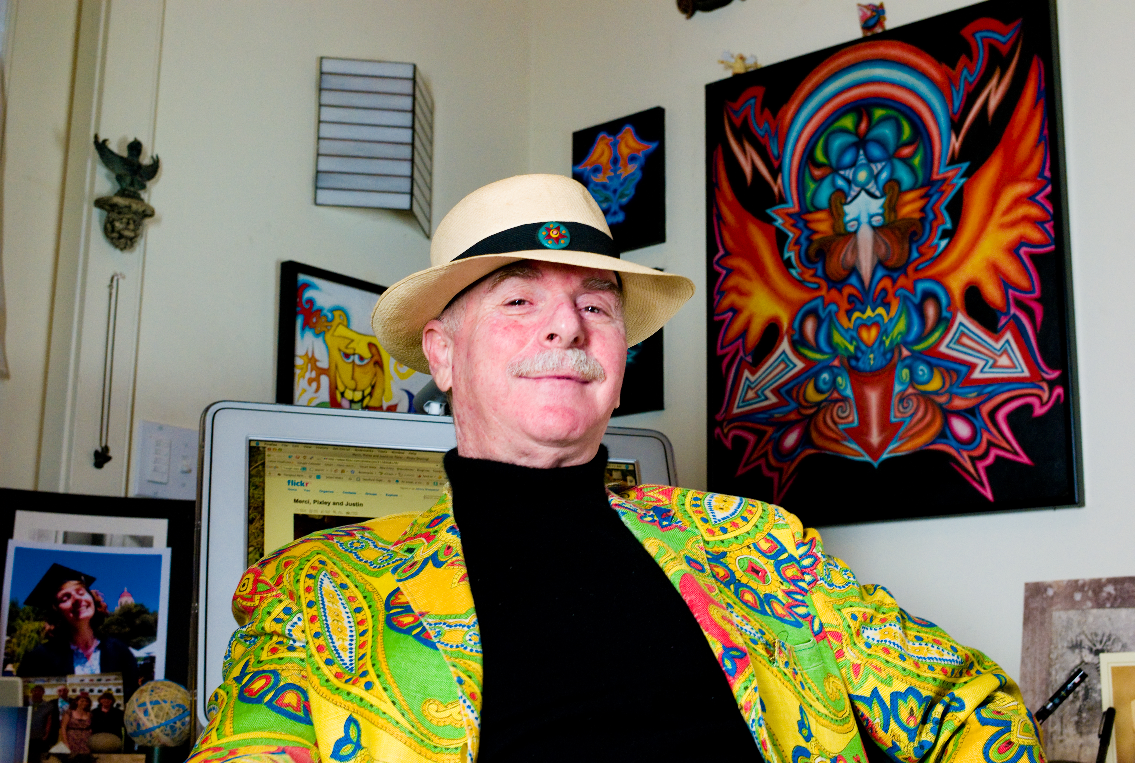 Howard Rheingold